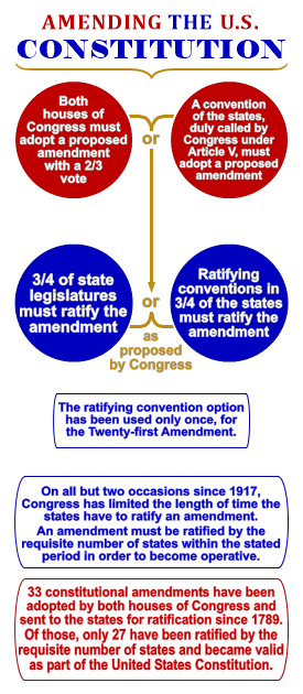 A diagram of the U.S. constitutional amendment process.